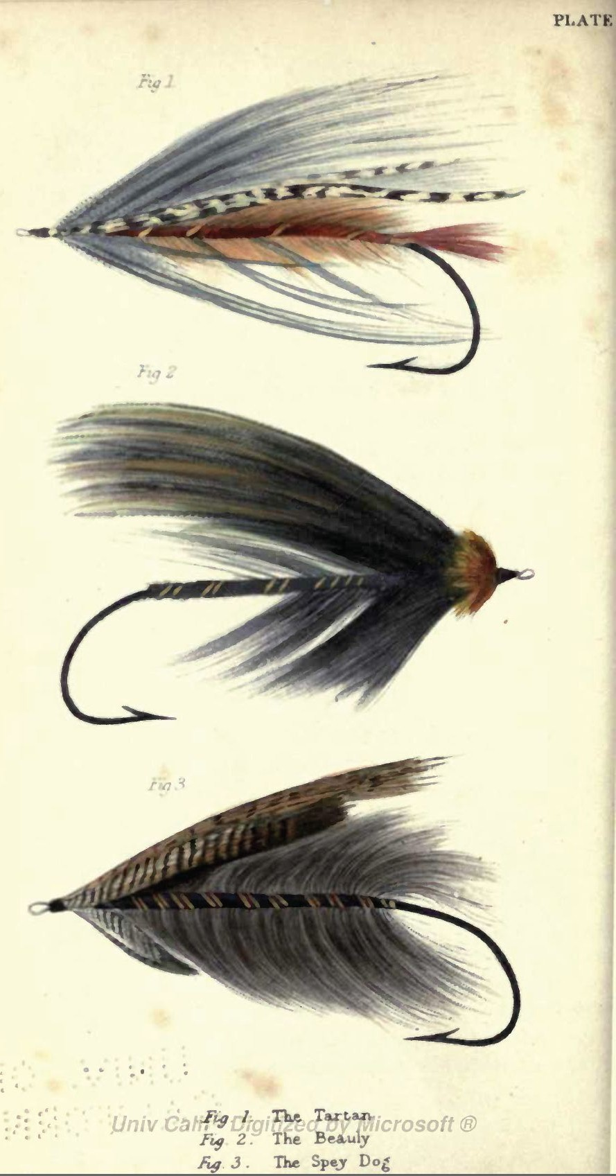 Plate XI - Salmon Flies from A Book on Angling, Francis Francis, 1876